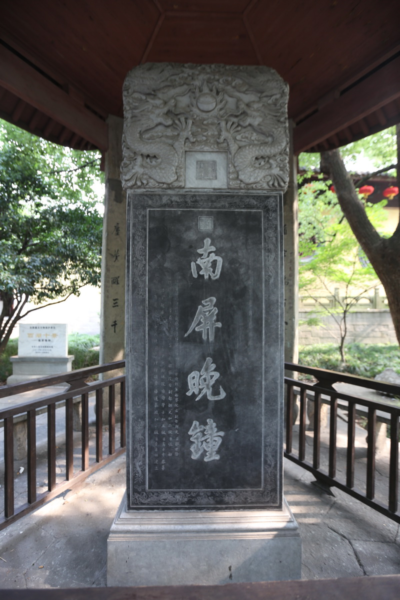 Nanping Wanzhong